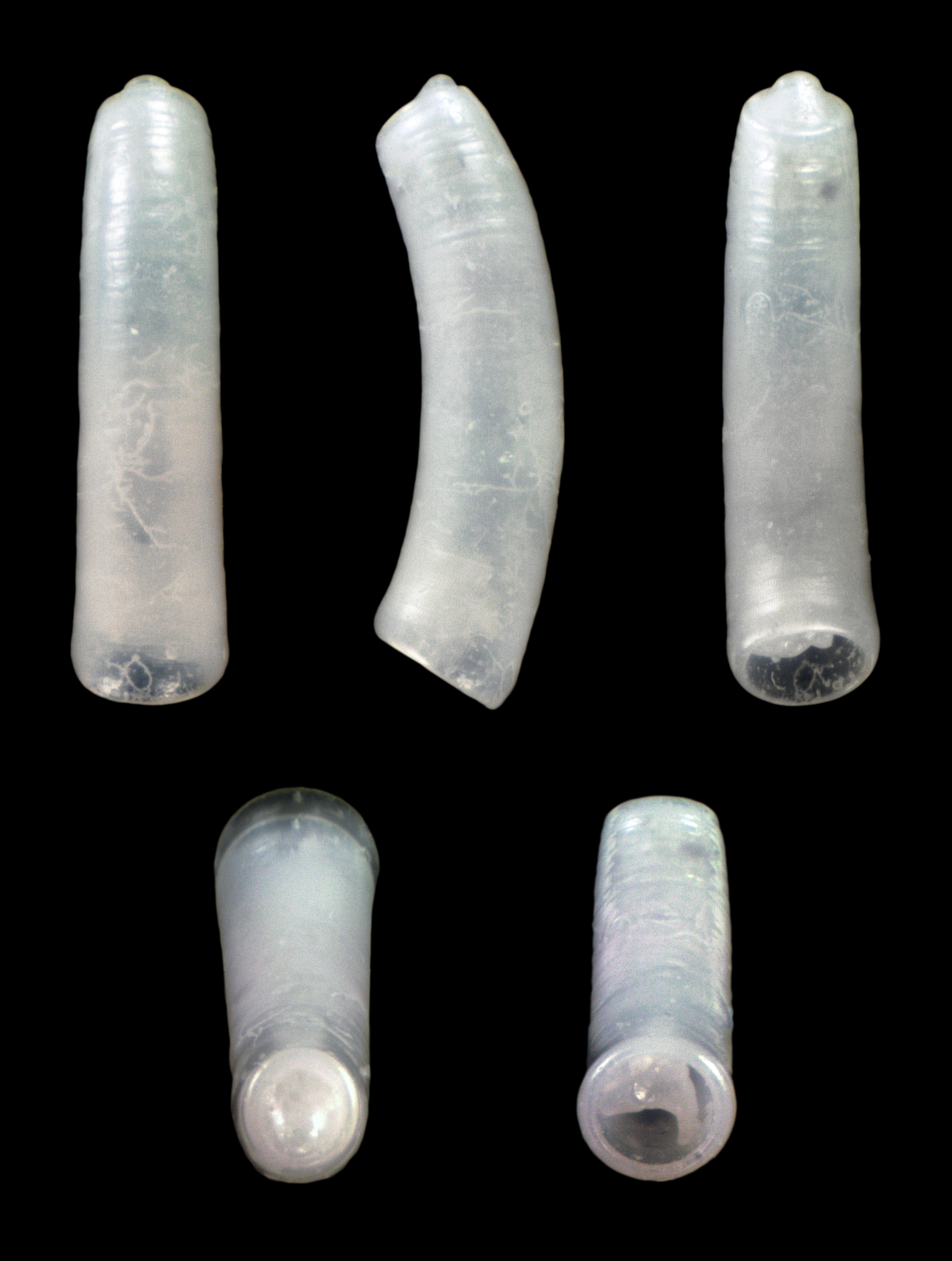 Caecum trachea obsoleta (Carpenter, 1859); Length 0.15 cm; Originating from Majorca, Spain; Shell of own collection, therefore not geocoded.